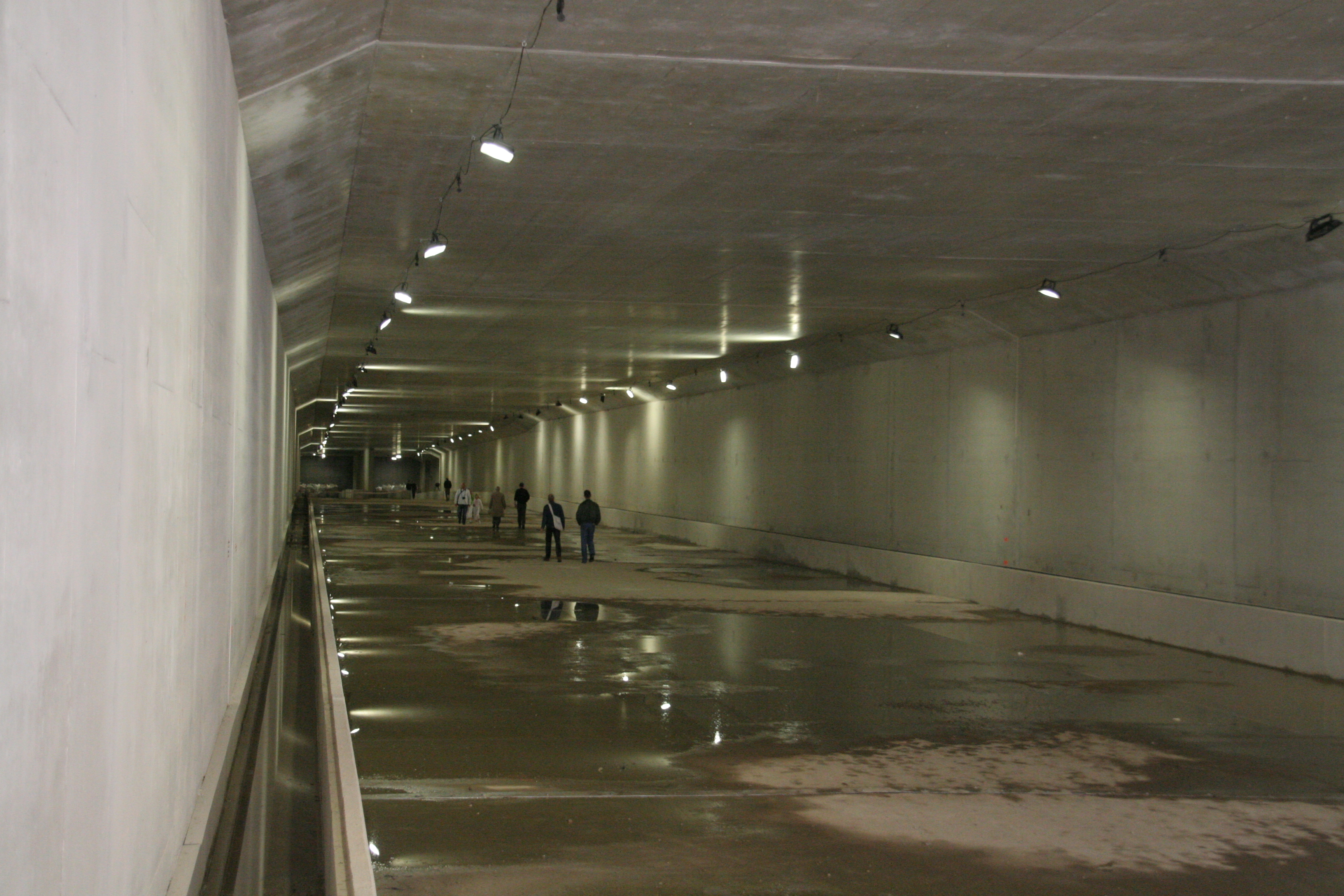 Metrotunnel Sixhaven